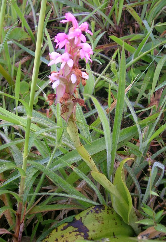 Satyrium nepalense - Flower found in Shola at Talakaveri, Coorg, India